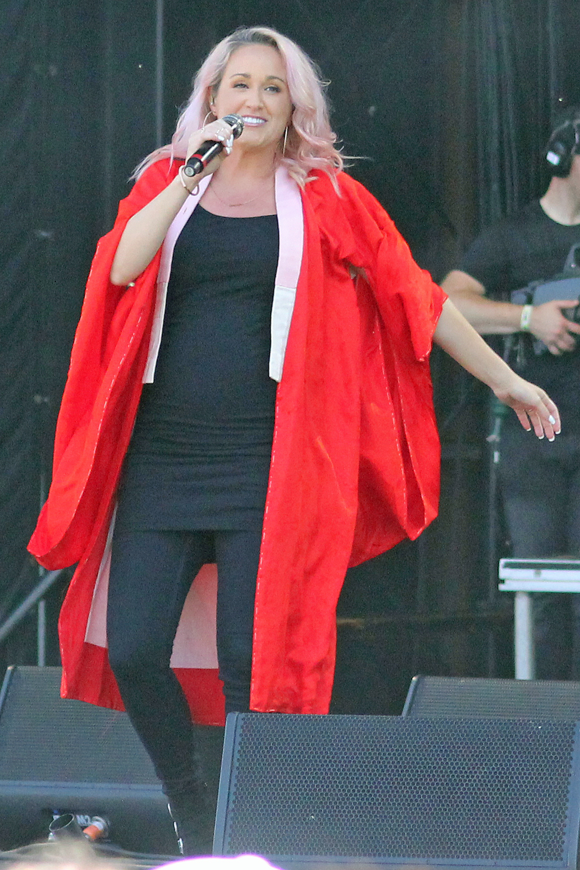 Britt Nicole singing at BCDO South May 2018 on the Main stage.